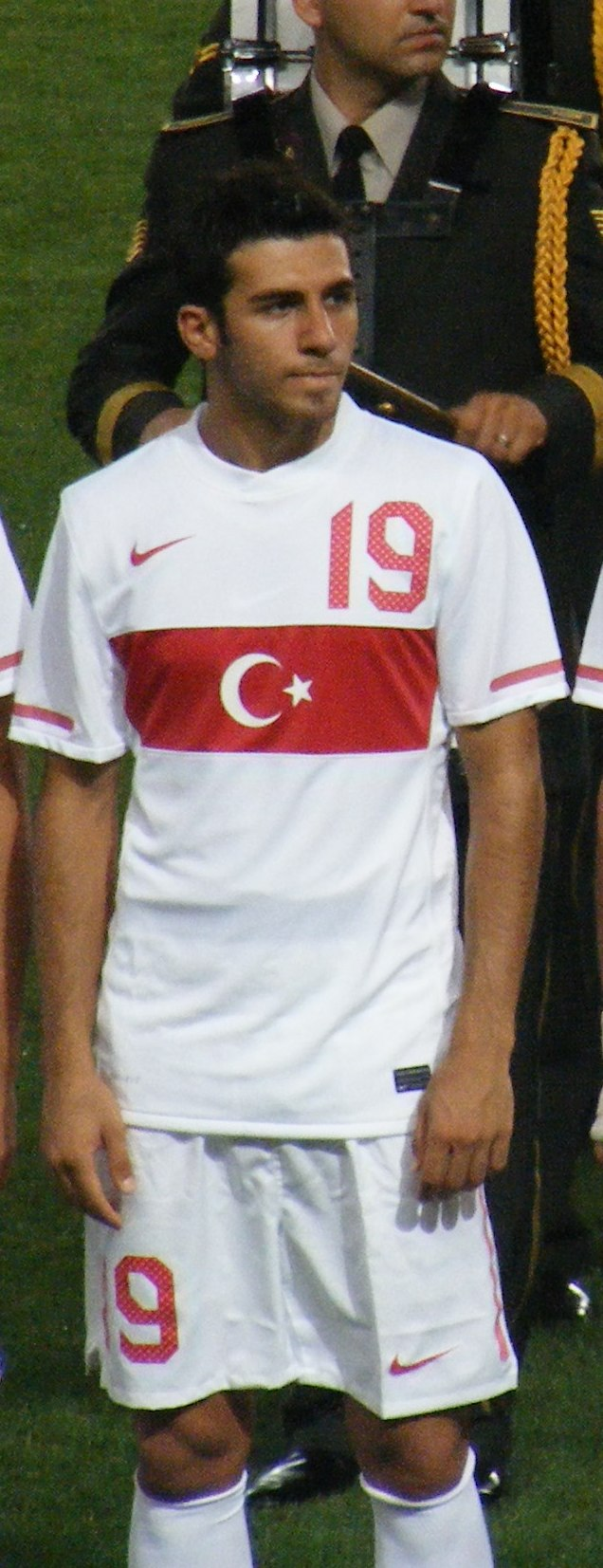 Ismail Koybasi in national jersey at match vs Romania in 11st Aug 2010, Wednesday at Fenerbahce Stadium, Istanbul